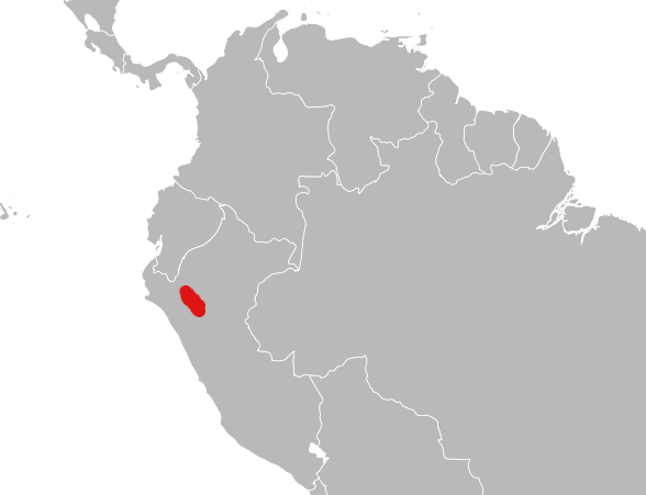 Approximate distribution of the rodent Eremoryzomys in Peru.